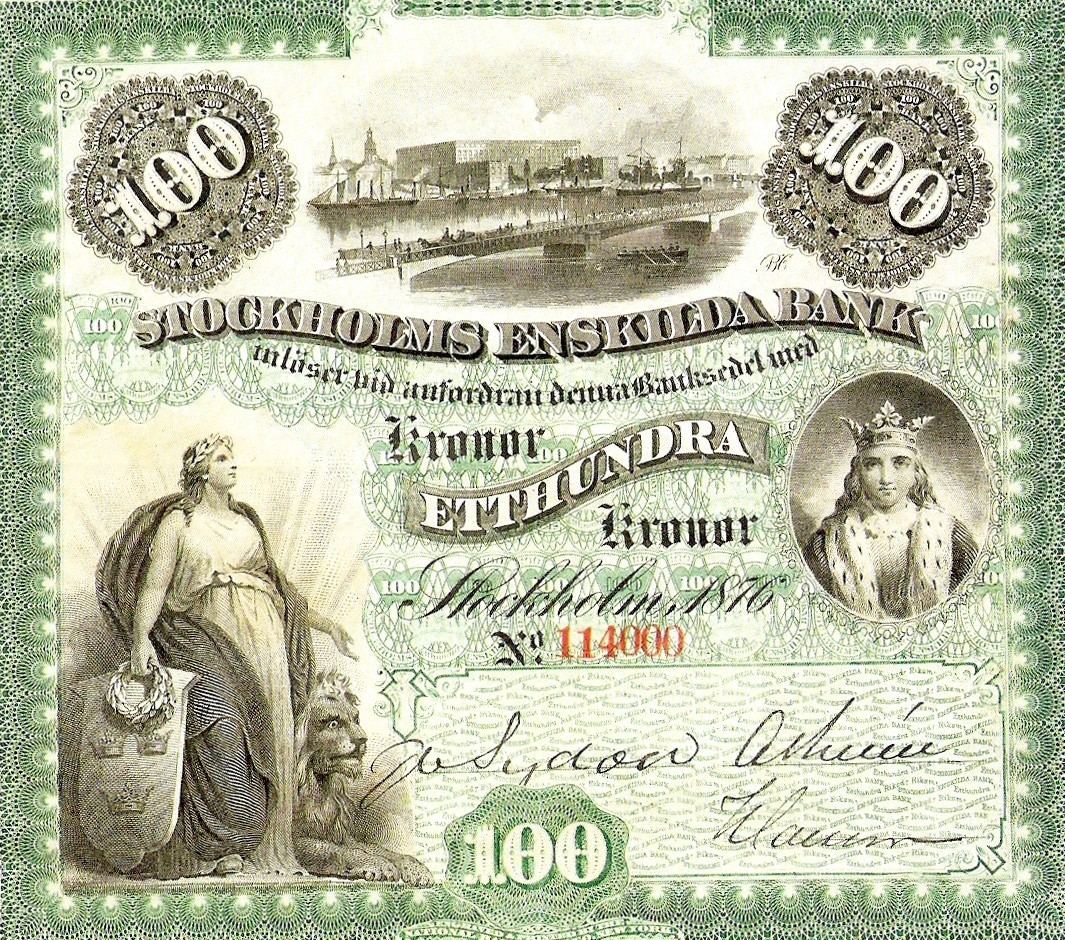 Banknote 100 Swedish krona, issued 1876 by Stockholms Enskilda Bank